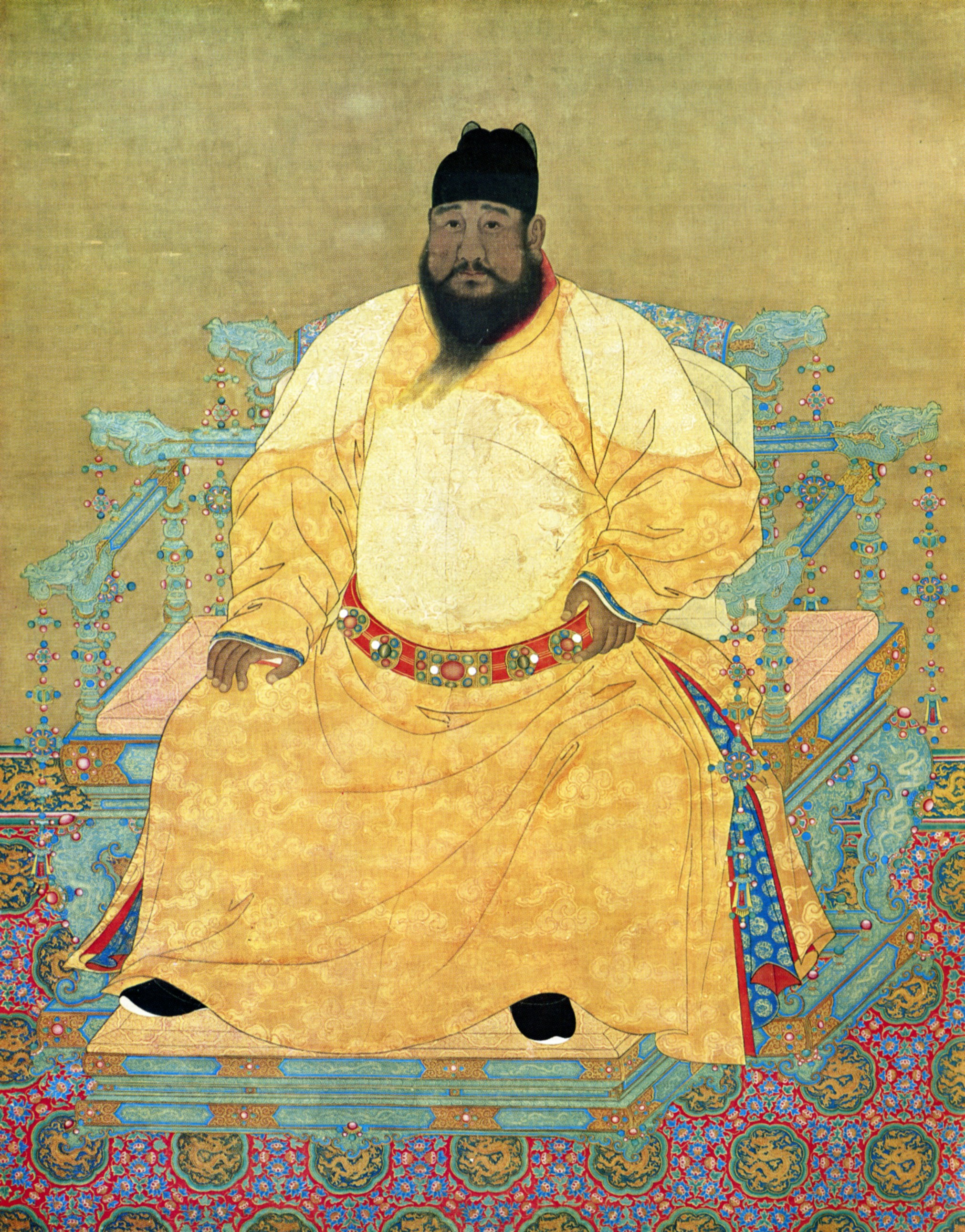 This depicts Zhu Zhanji (1399-1435), also known as Emperor Xuanzong of the Ming dynasty, who had the reign name Xuande.